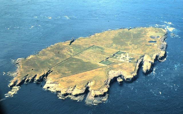 Muckle Skerry from the air See Muckle_Skerry